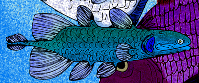 Cropped image of taxon in file name